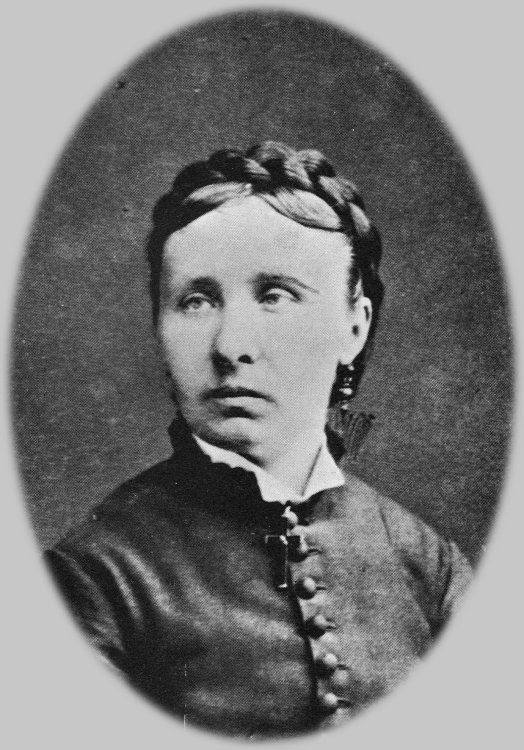 Photograph of the 19th Century French Catholic mystic, Estelle Faguette